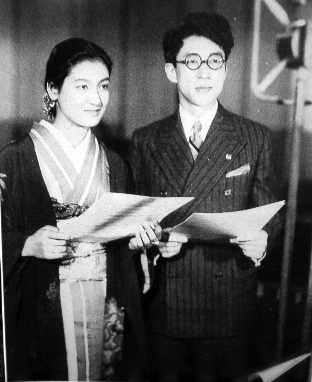 Setsuko Hara (1920–, left) and Tarō Shōji (1898–1972)